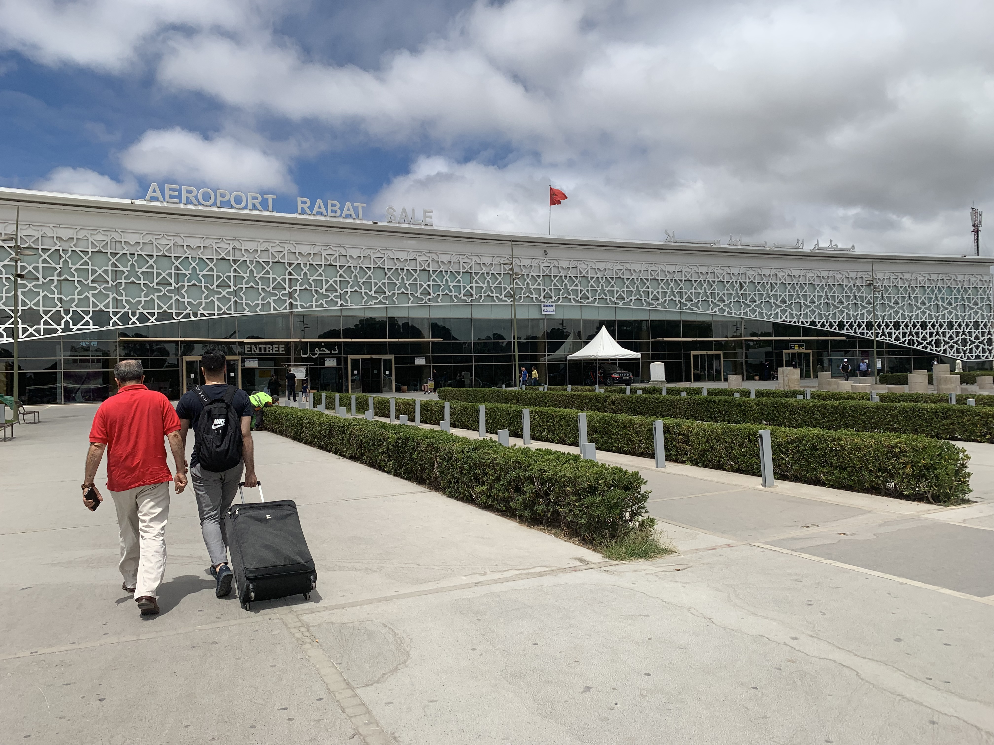 This is the entrance of Rabat-Salé airport, located at the city of Salé in Morocco